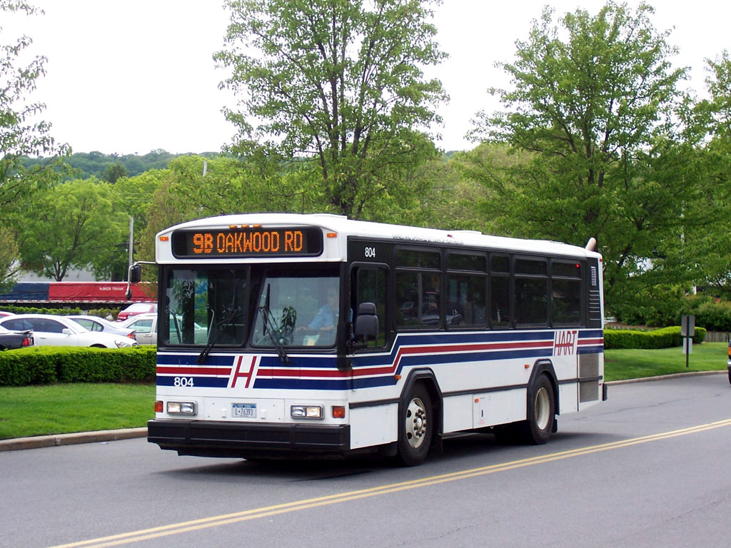 Huntington Area Rapid Transit Gillig Phantom 30TB096 #804 at the Walt Whitman Mall in South Huntington, NY, on the H9.